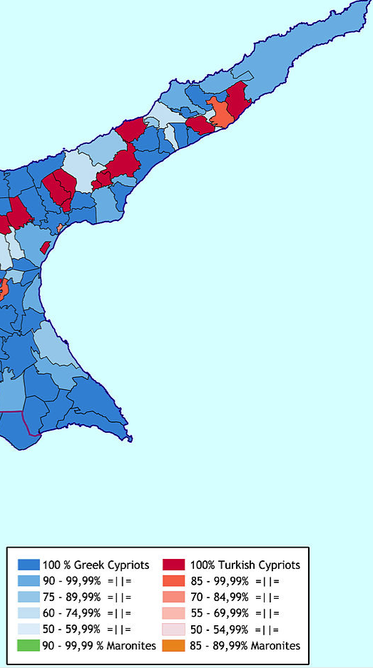 Map showing the distribution of population in eastern Cyprus during the 1960 census